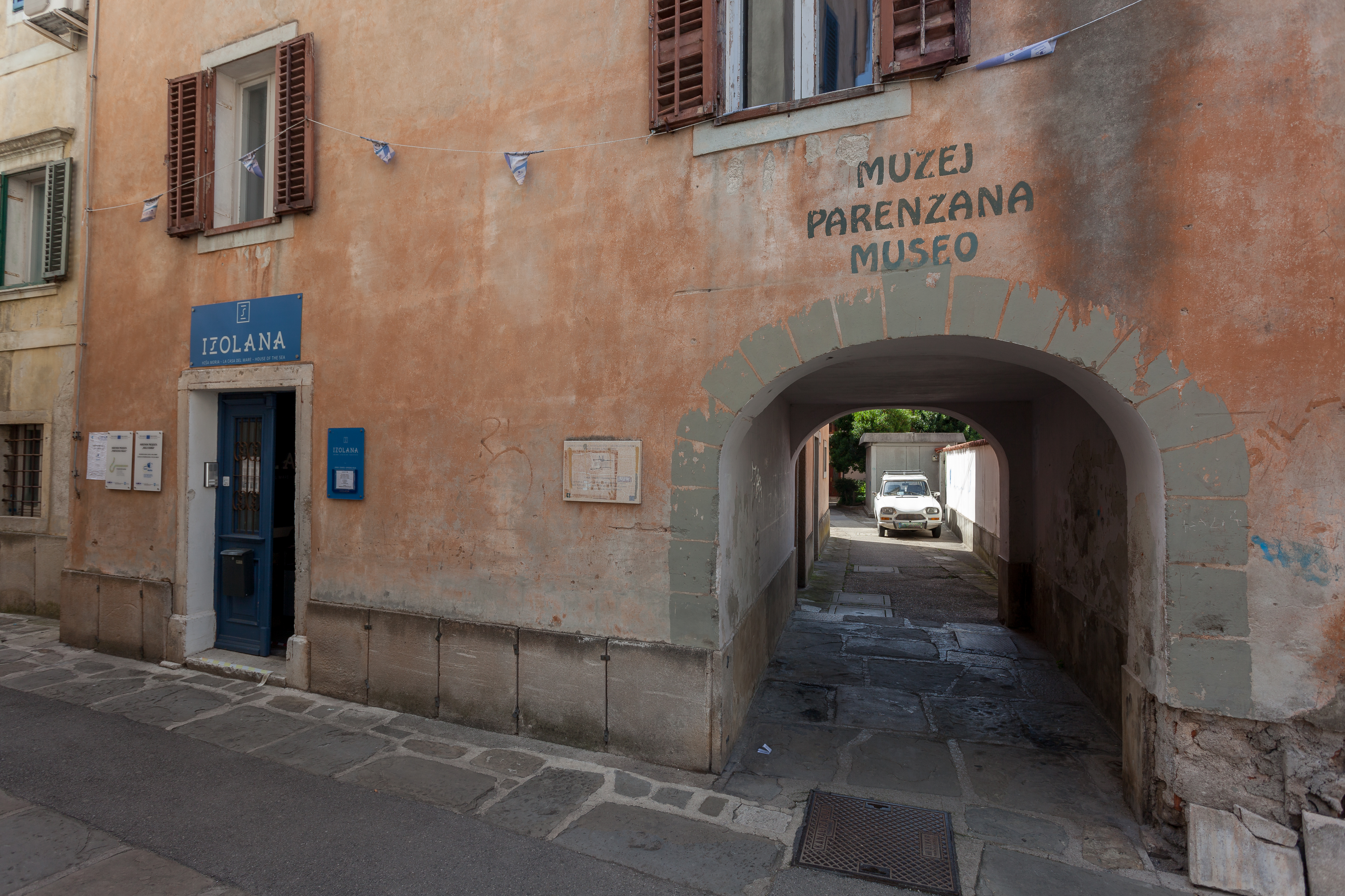 Museum of Parenzana in Izola